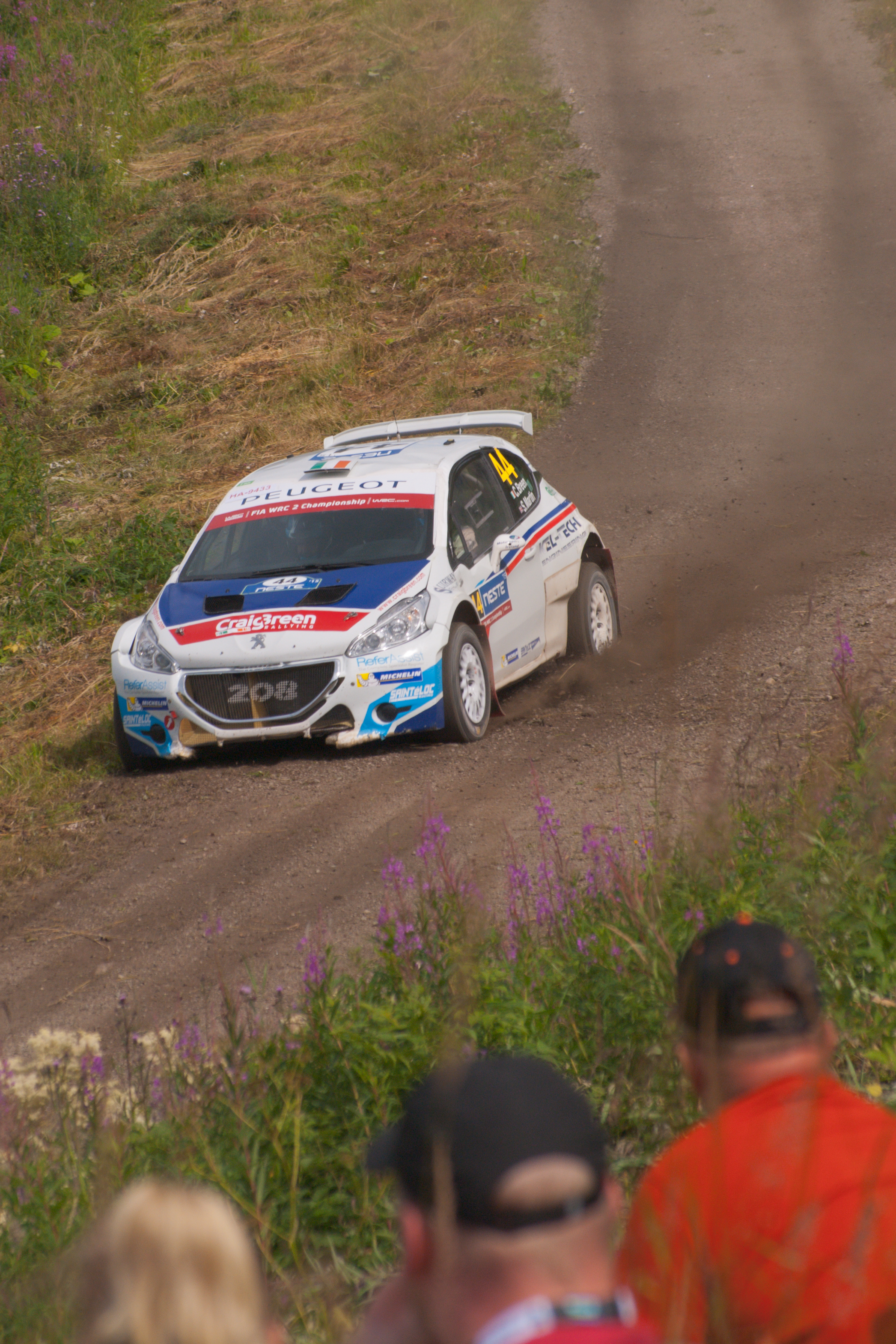 Photos from 2015 Rally Finland / SS5 Himos 1.